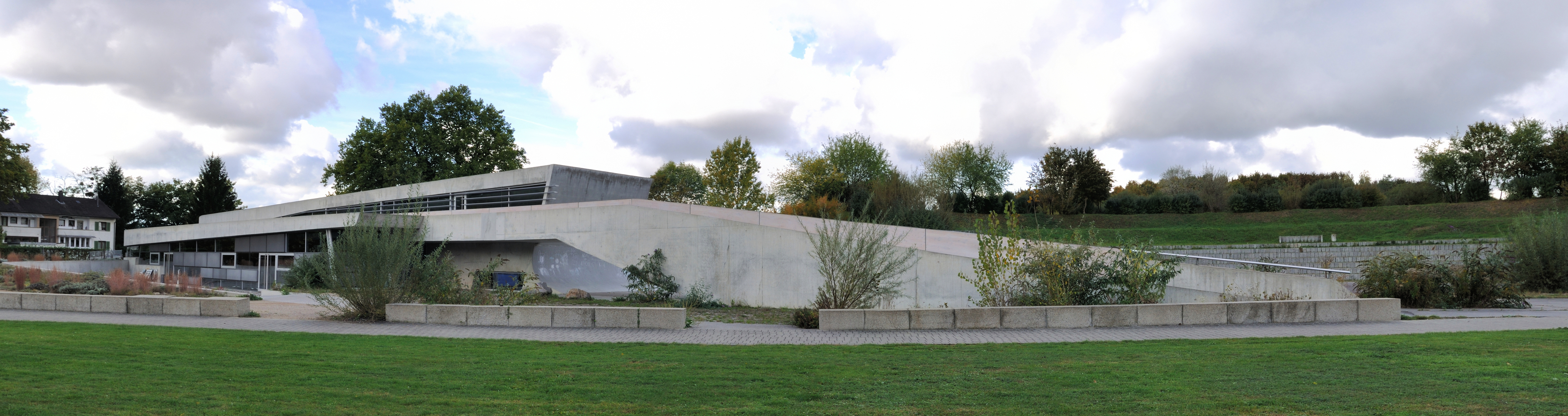 Weil am Rhein: Landscape Formation One